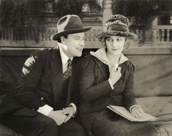 Scene still from the American film Johnny on the Spot with Hale Hamilton and Louise Lovely (Metro, 1919).